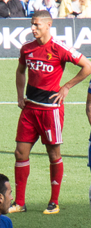 Chelsea 4 Watford 2